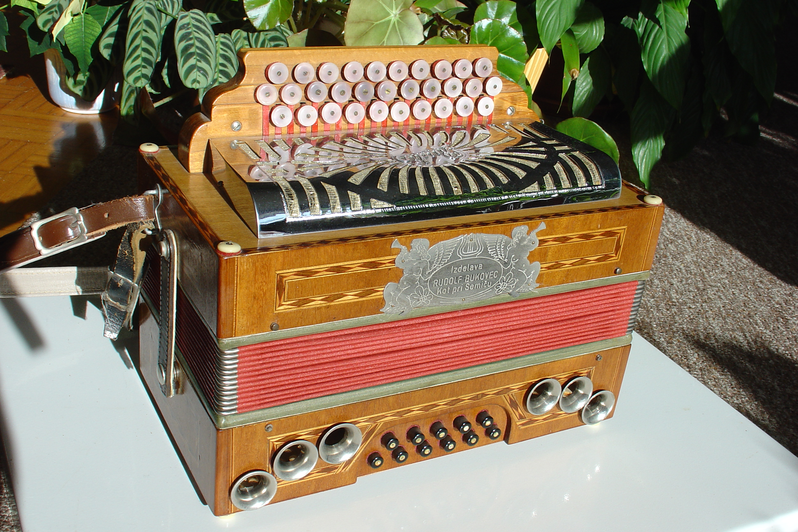 Diatonic Button Accordion with Three rows, made by Rudolf Bukovec, Kot pri Semicu, Slovenia